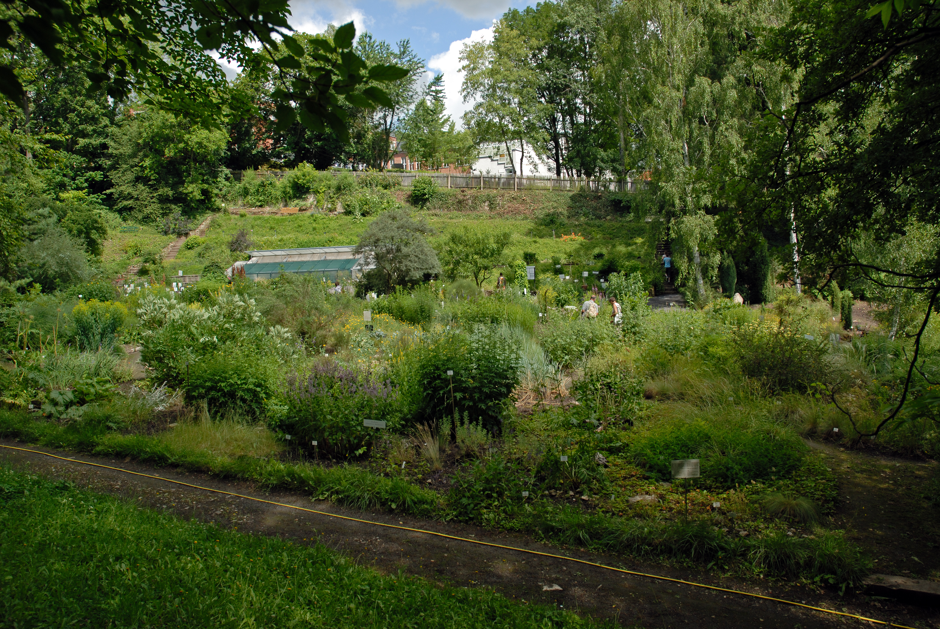 This image shows the botanical garden in Jena.